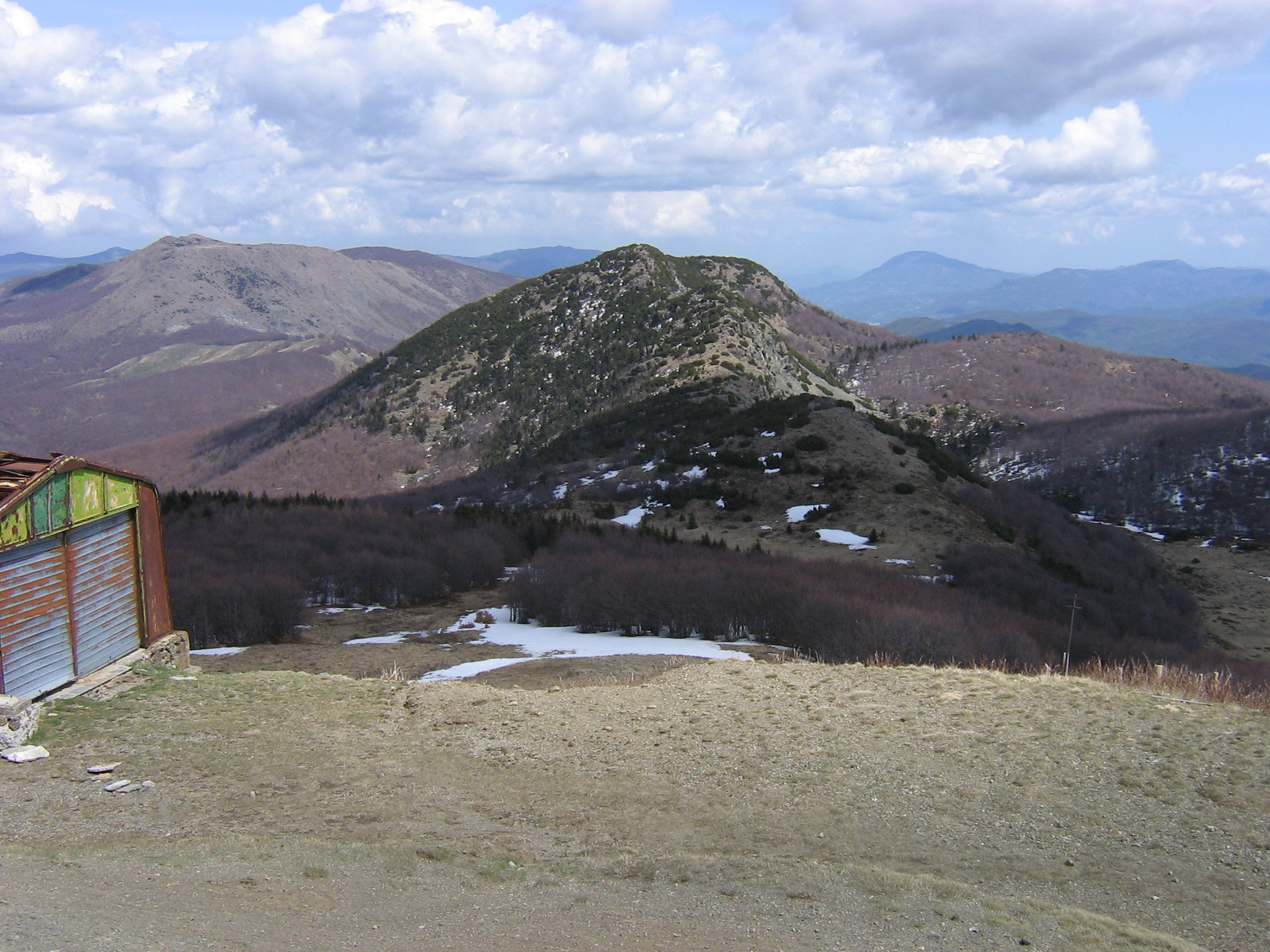 Monte Nero (1754 m), one of the highest peaks of the Ligurian Apennines, seen from Monte Bue's summit (1777 m), the second highest point of the whole range.